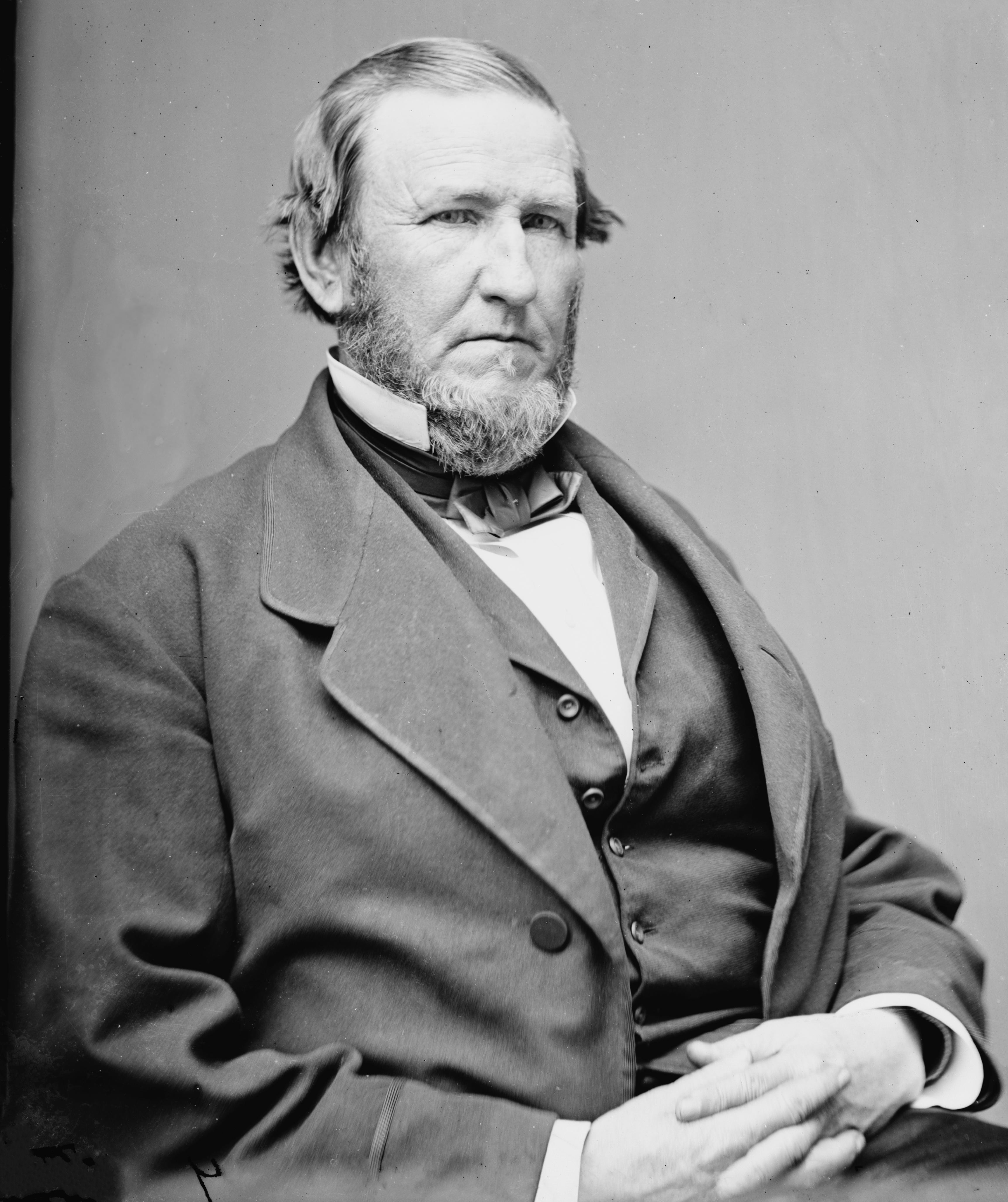 Lazarus W. Powell. Library of Congress description: "Hon. L. W. Powell"